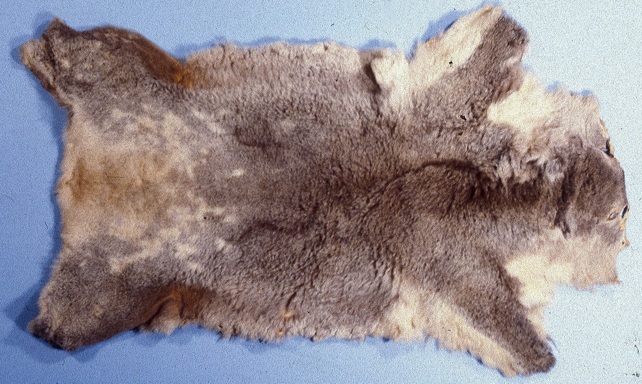 Koala fur skins (Phascolarctos cinereus). Fur skin collection, Bundes-Pelzfachschule, Frankfurt/Main, Germany . Aus der Fellsammlung der ehemaligen Bundes-Pelzfachschule (heute Frankfurter Schule für Bekleidung und Mode, Frankfurt/Main. Gesammelt unter Studiendirektor Ludwig Brauser. Derzeit eingelagert in den Räumen des Senckenbergmuseums, Frankfurt/Main.